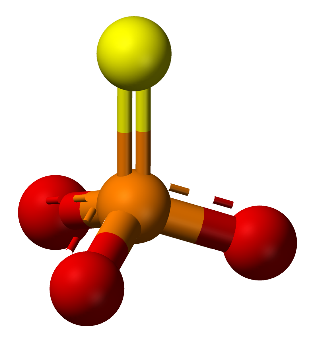 Thiophosphate-ion molecule model